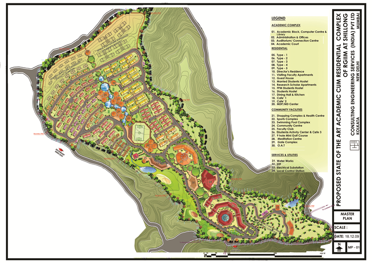 New_Campus_plan